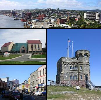 Collage of various St. John's images, made from free wikipedia images